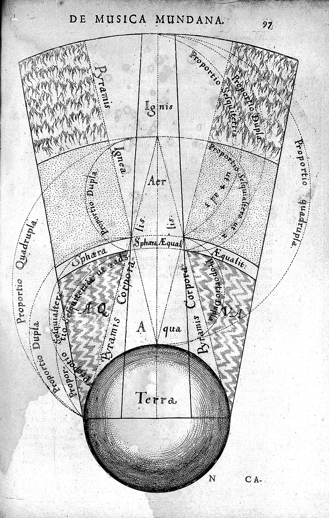 Rare Books Keywords: Alchemy; Fludd, Robert